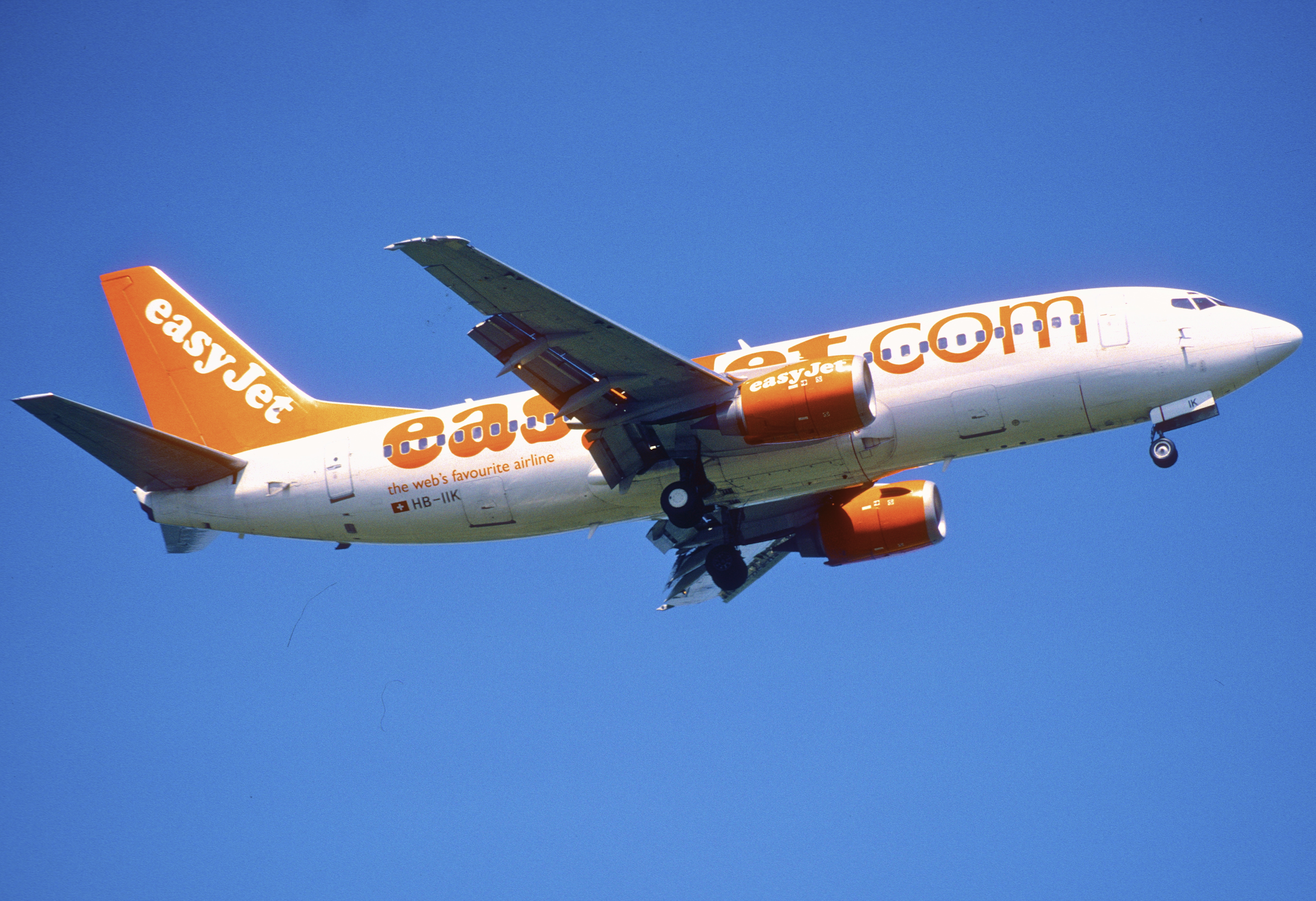 This Boeing 737-33V took its first flight on June 4, 1999...(c/n 29337/ 3113) 23/06/1999 EasyJet G-EZYM 30/06/2000 EasyJet Switzerland HB-IIK 02/04/2001 EasyJet G-EZYM 22/10/2001 EasyJet Switzerland HB-IIK 04/09/2003 EasyJet G-EZYM 20/06/2006 Virgin Nigeria 5N-VND 17/09/2009 Nigerian Eagle Airlines 5N-VND 02/06/2010 Air Nigeria 5N-VND stored 08/2012 as N279CS